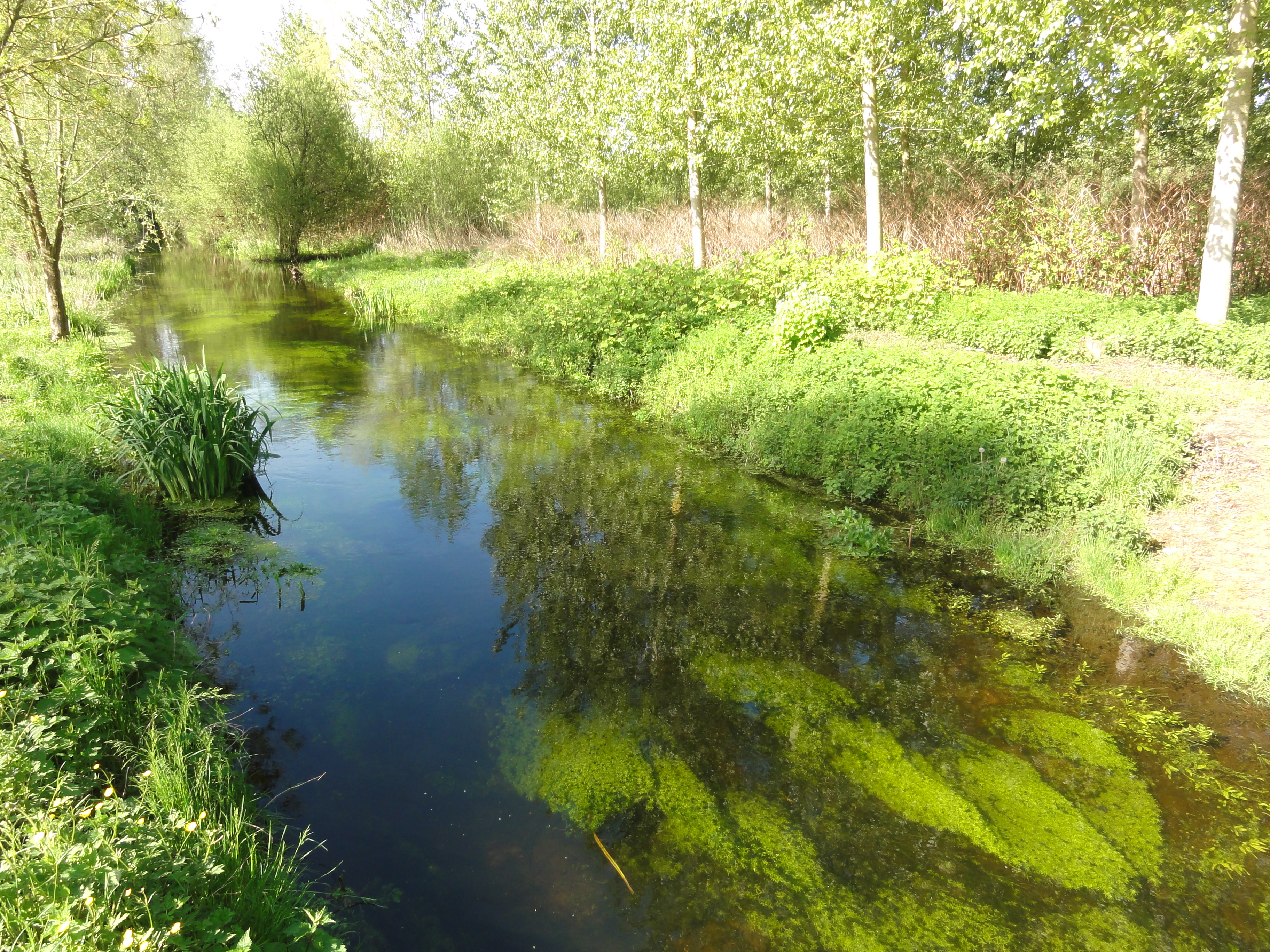 Barenton-Bugny (Aisne) rivière La Serre